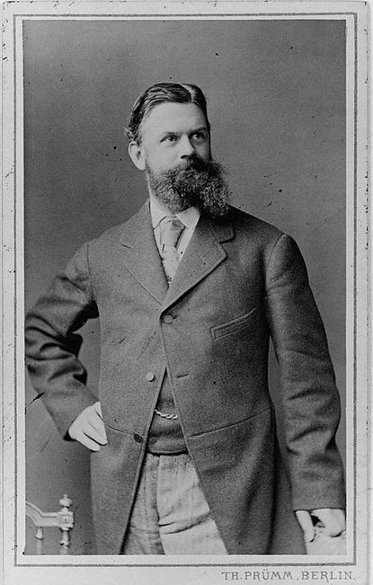 John Boyd Thacher collection about judges and commissioners for the 1893 World’s Columbian Exposition